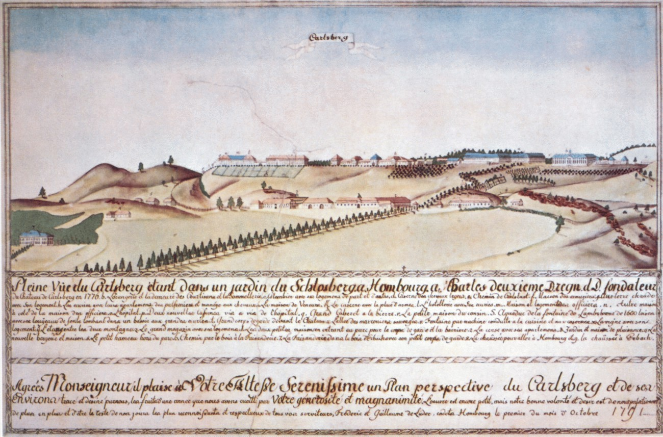 "Pleine vue du carlsberg" by Friedrich and Willhelm von Lüder 1791